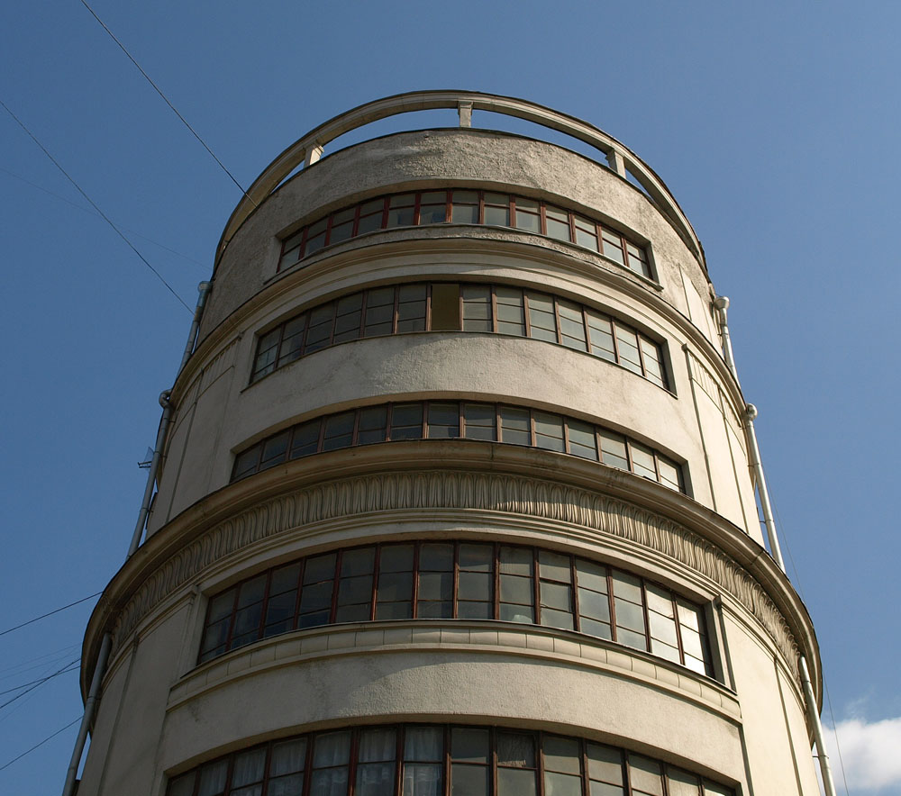 6, Bolshaya Dorogomilovskaya, Moscow. The first hotel built in the city after WWI and Revolution.